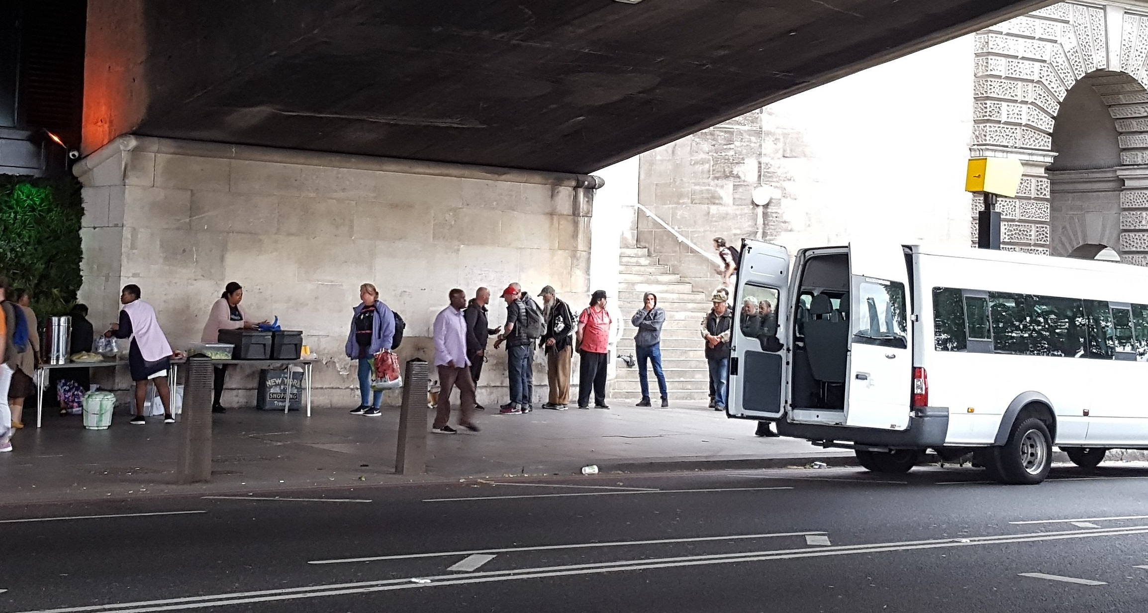 This soup run was setting up for its 2-hour stint. Located under Waterloo Bridge, at Victoria Embankment, in central London. Photo taken 3:05pm Sunday, 26th May 2019